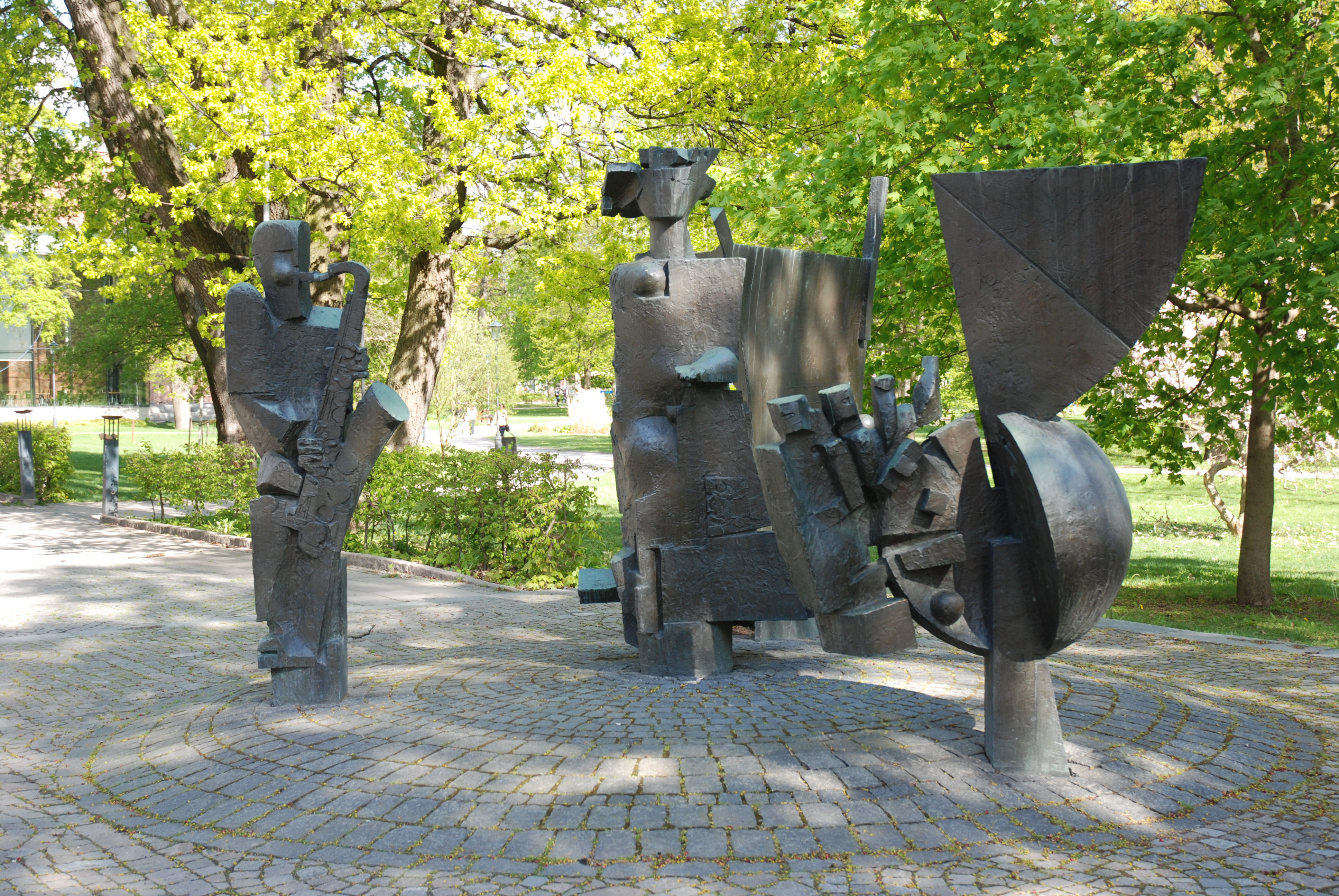 Olle Adrin´s Borgarna (The bourgeoisie), bronze, Västerås, Sweden